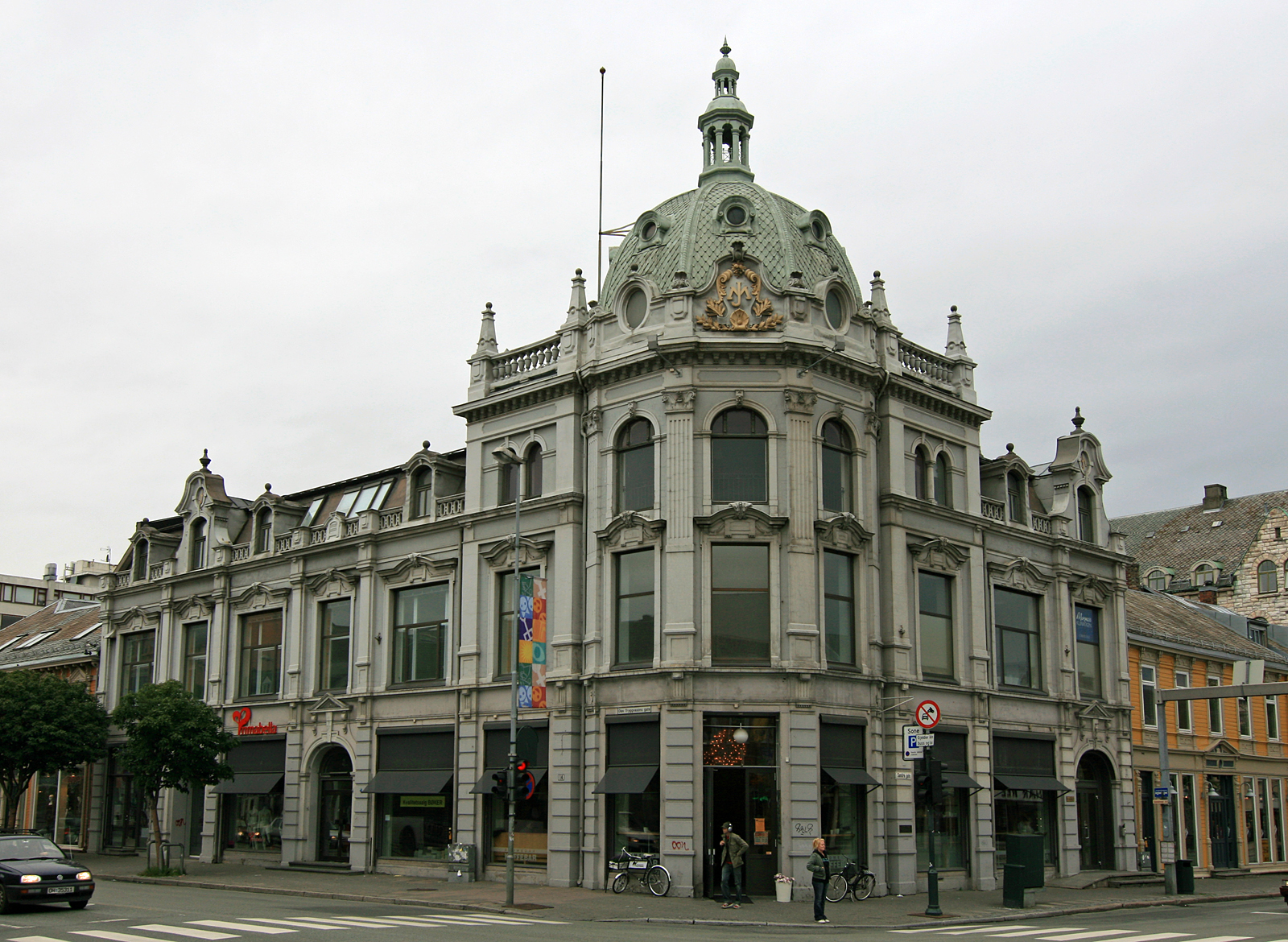 Mathesongården, Olav Tryggvasons gate 14, Trondheim, Norway. Built 1898. Architect: Karl Norum.